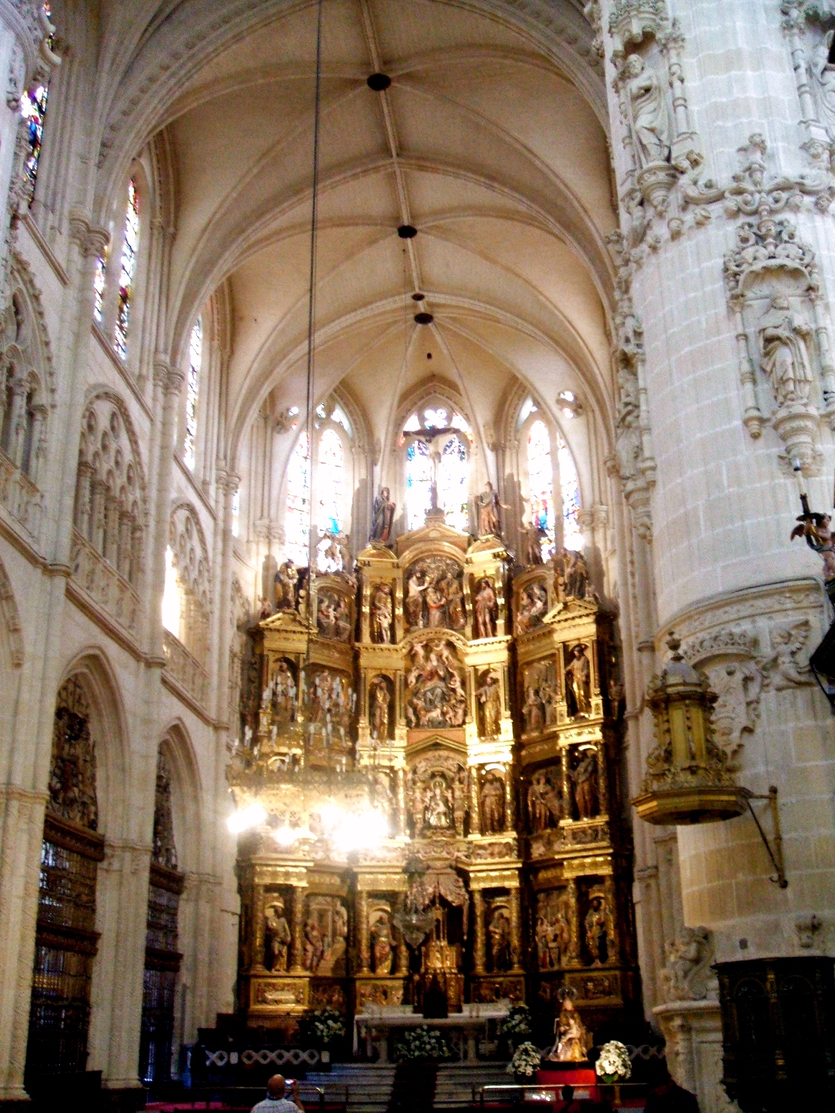 Aspecto de la Capilla Mayor de la Catedral de Burgos (España)